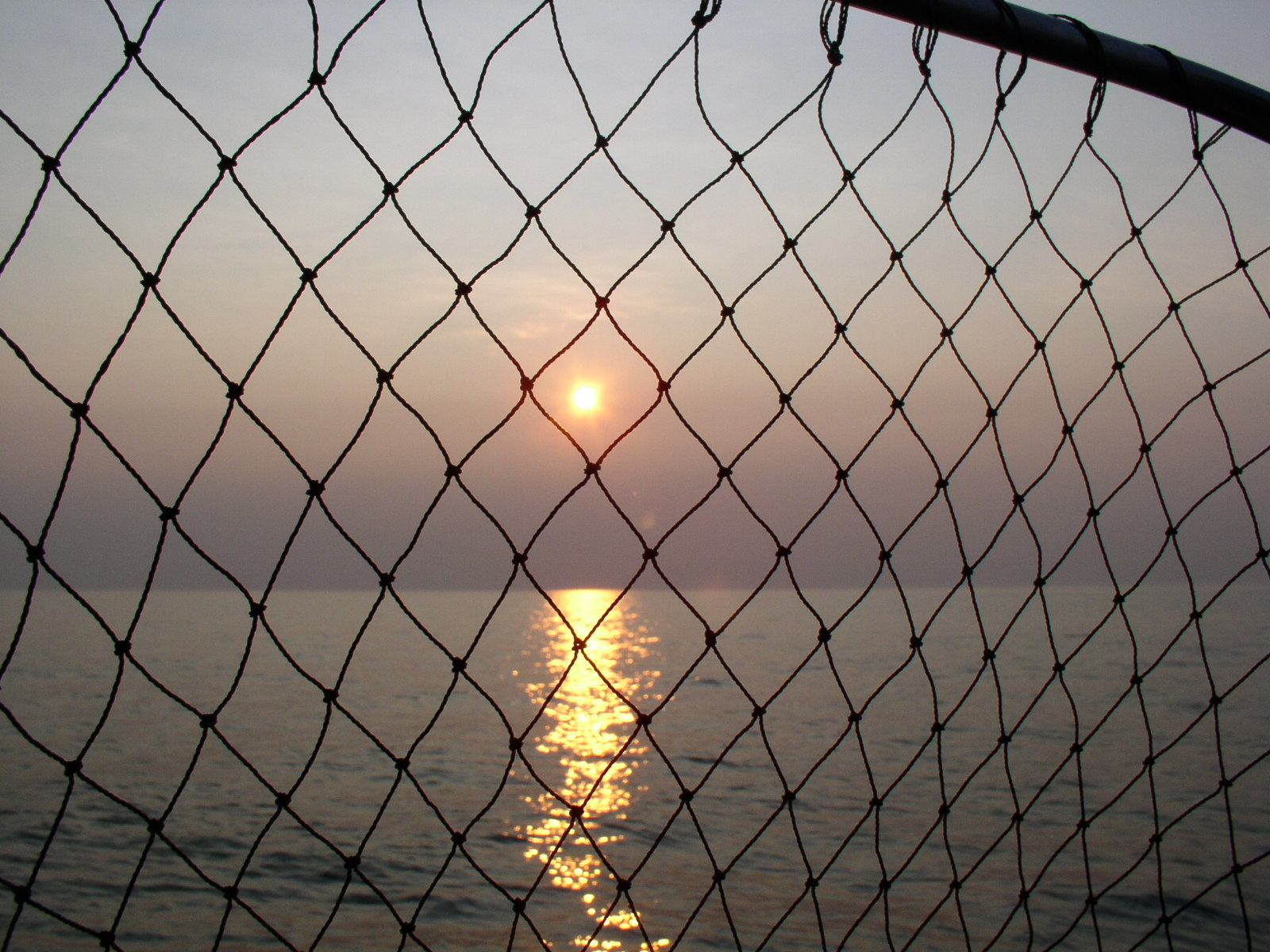 Sunset over Lake Erie through fishing net, Erie, Pennsylvania, September 5, 2004. Photo taken and uploaded by Wikipedia user Sensor.